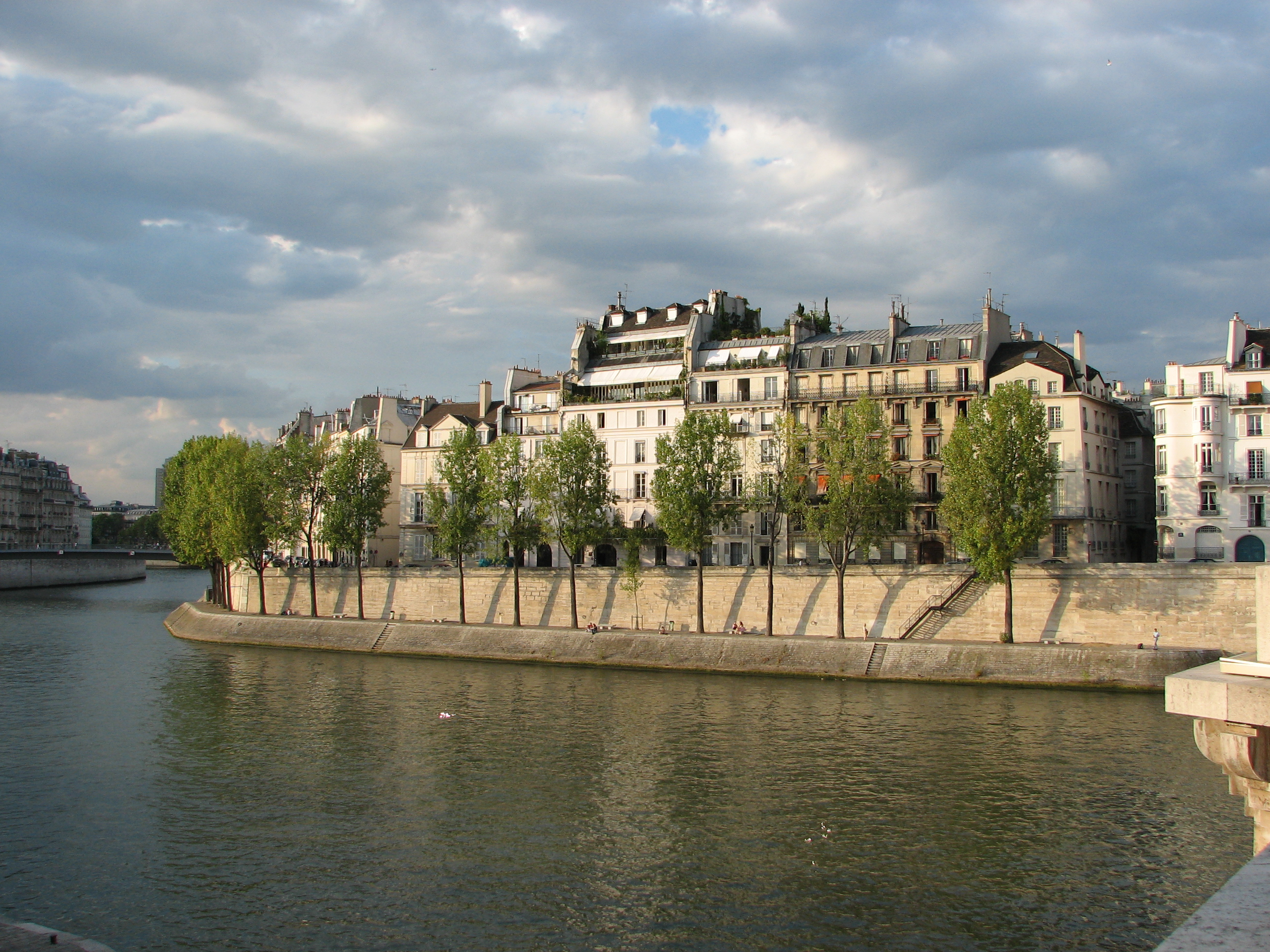 South part, with Quai d'Orléans, of Île Saint-Louis (Paris), as seen from Pont de la Tournelle.